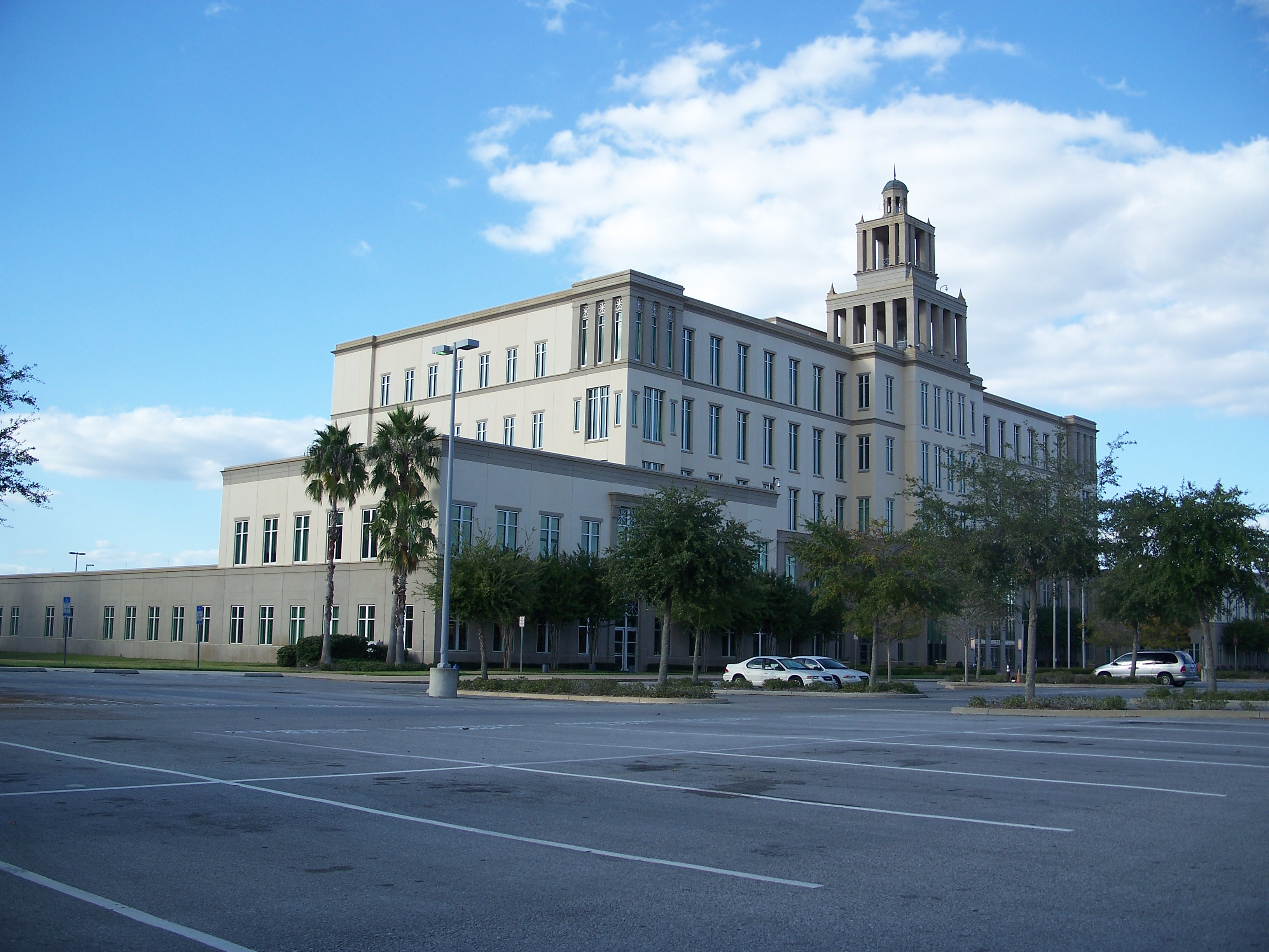 Sanford, Florida: Criminal Justice Center